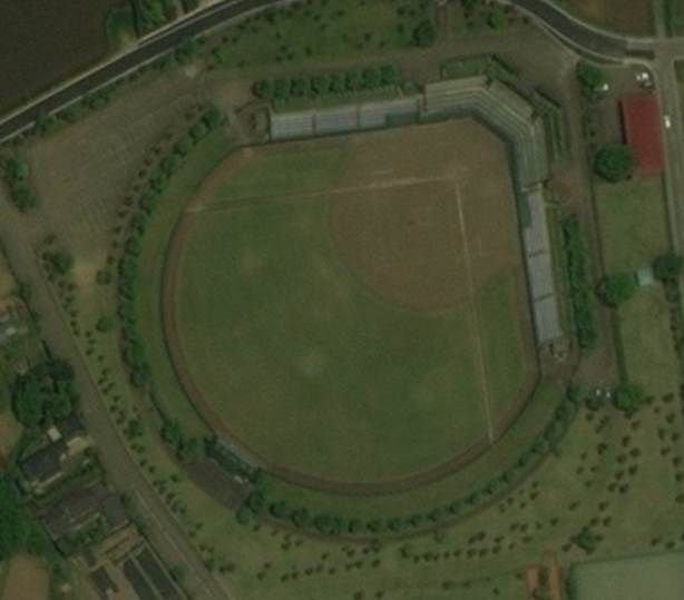 Satellite view